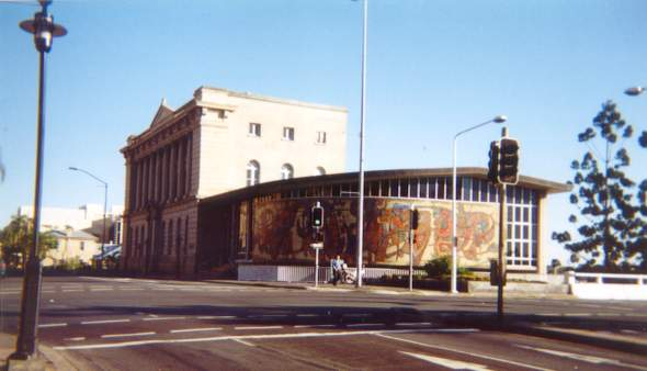 The old State Library in Brisbane, Queensland, Australia ( this photograph was taken by Figaro )